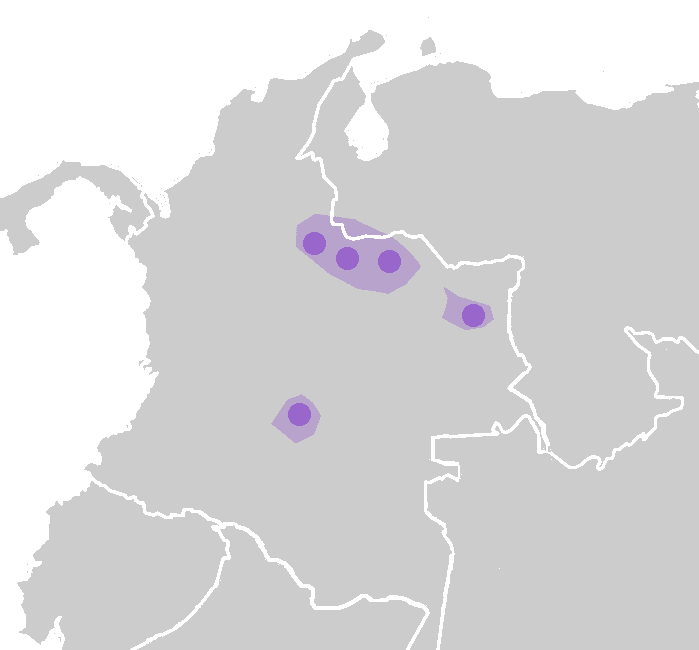 Wahiboan languages (violet). Documented locations languages at present are signaled by spots, and approximate early probable areas are shadowed. Source: Based on data of Alexandra Y. Aikhenvald and R. M. Dixon "Other Small families and isolates" in The Amazonian Languages, Dixon & Alexandra Y. Aikhenvald (eds.), Cambridge: Cambridge University Press, 1999. p. 342